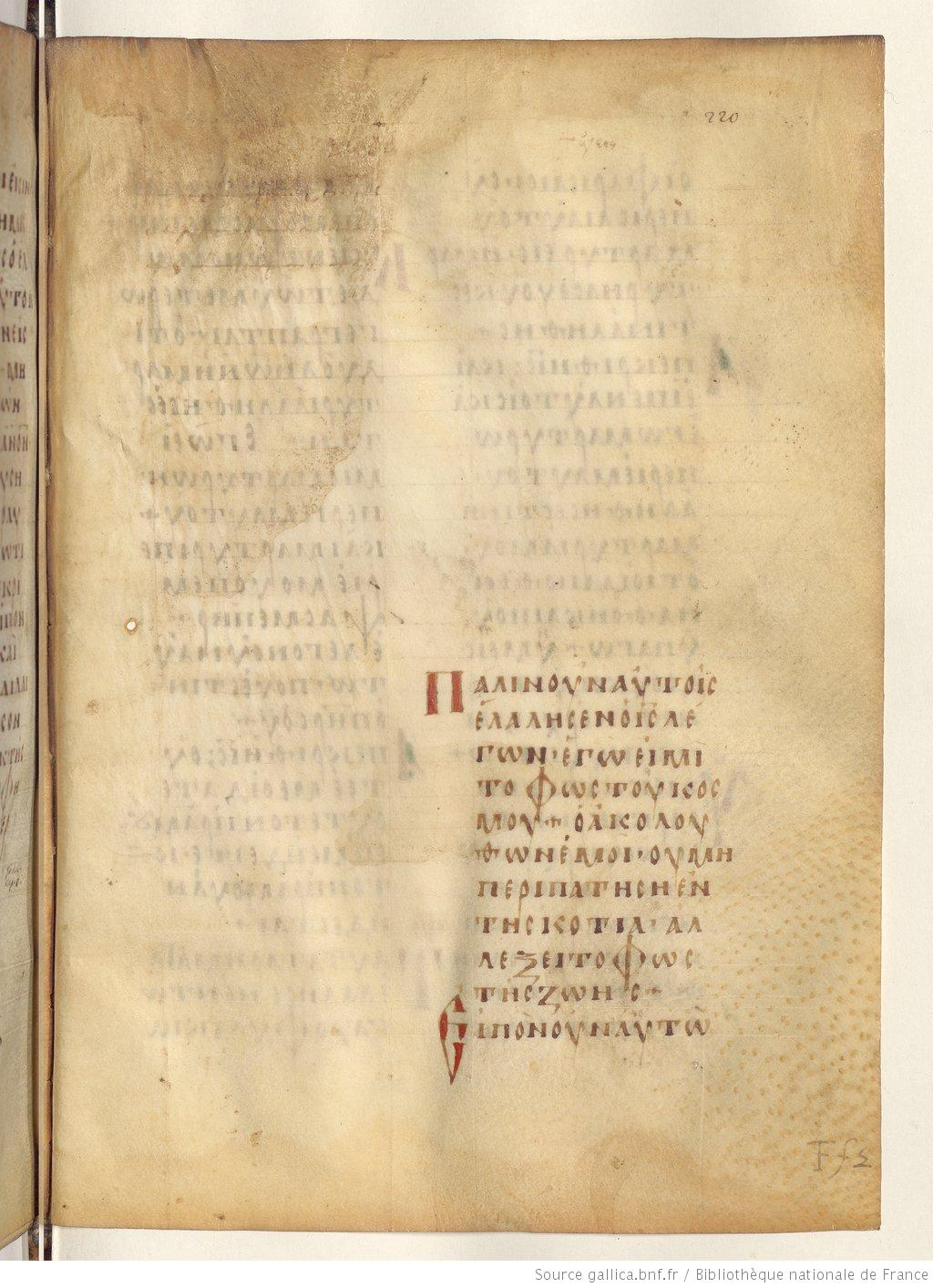 Codex Regius 019 (Gregory-Aland) manuscript of the New Testament, the page with Pericope Adulterae (lacuna)